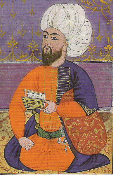 Hayâlî